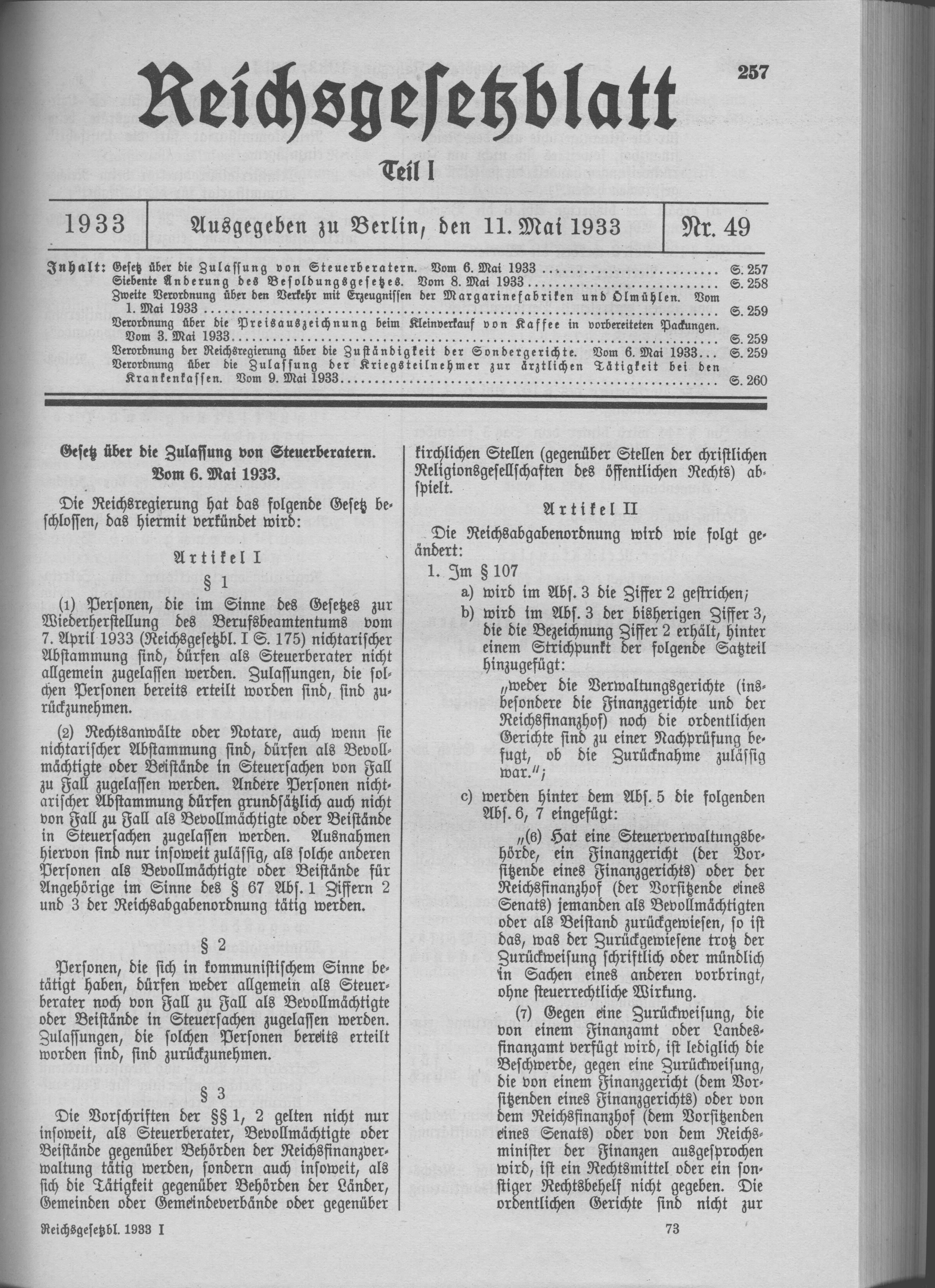 Scan from the Imperial Law Gazette of Germany, 1933, part 1